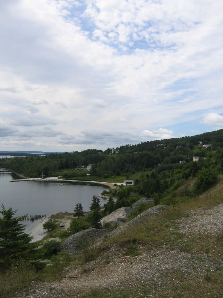 The coastline of Bras d'Or Lake at Marble Mountain, Inverness Co..